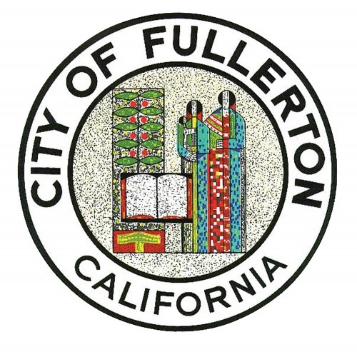 Seal of the city of Fullerton, California